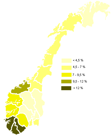 Map of the counties of Norway, showing the elections results for Kristelig Folkeparti in the different counties at the parliamentary elections of 2005.